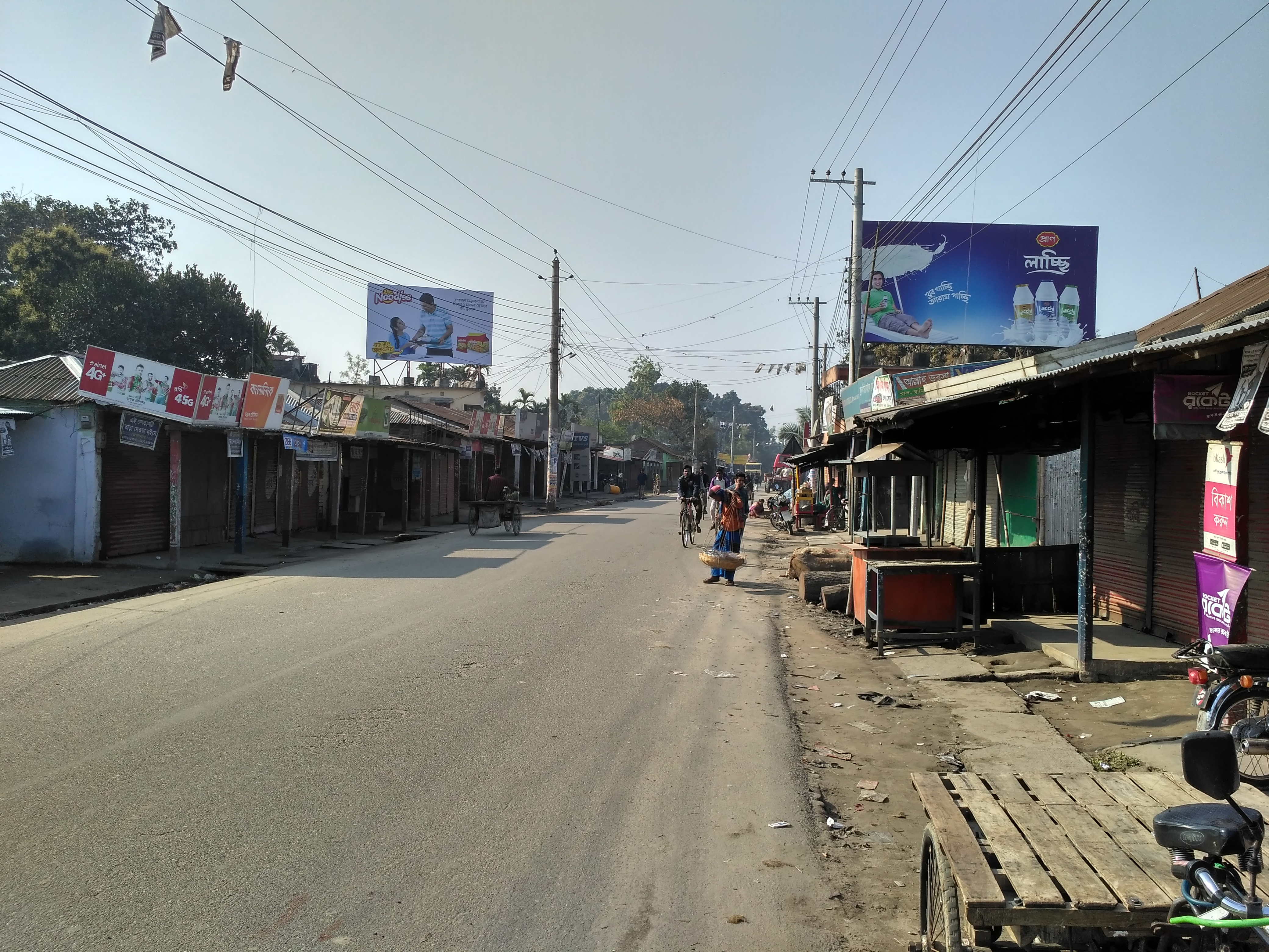 View of the road near Jaldhaka bus stand, Dimla - Jaldhaka Road, Nilphamari, Bangladesh. (01.03.2019)